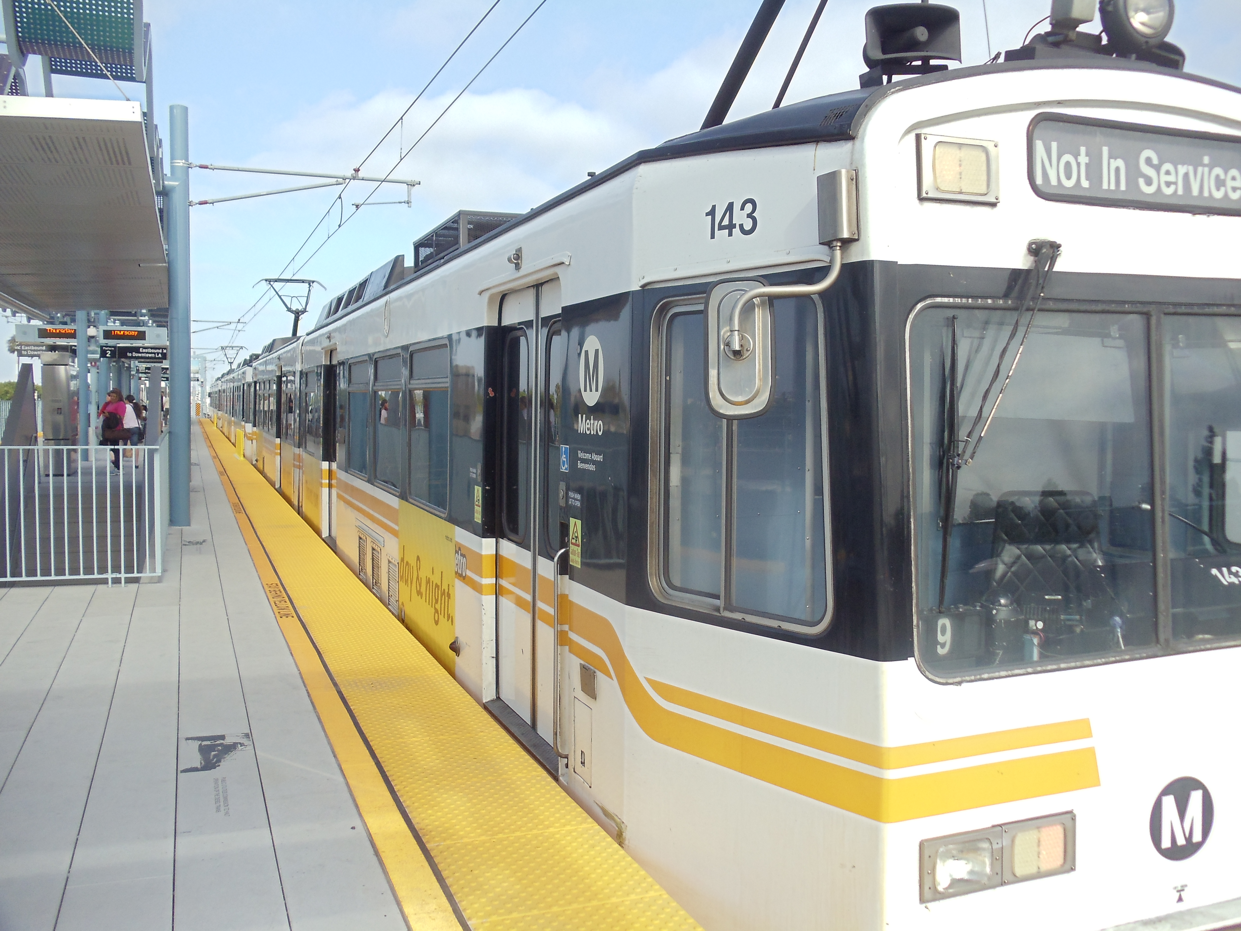 Expo Line train at Culver City Station.